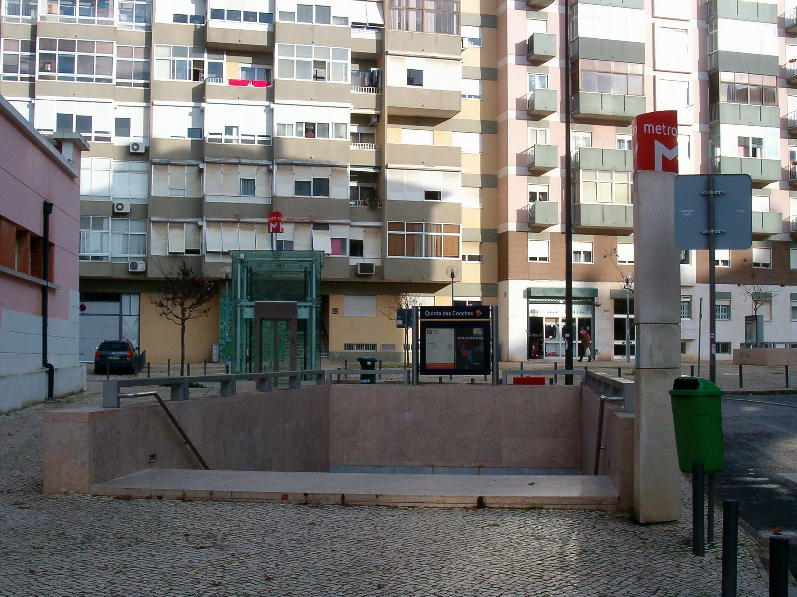 Metro station Quinta das Conchas (Lisboa)